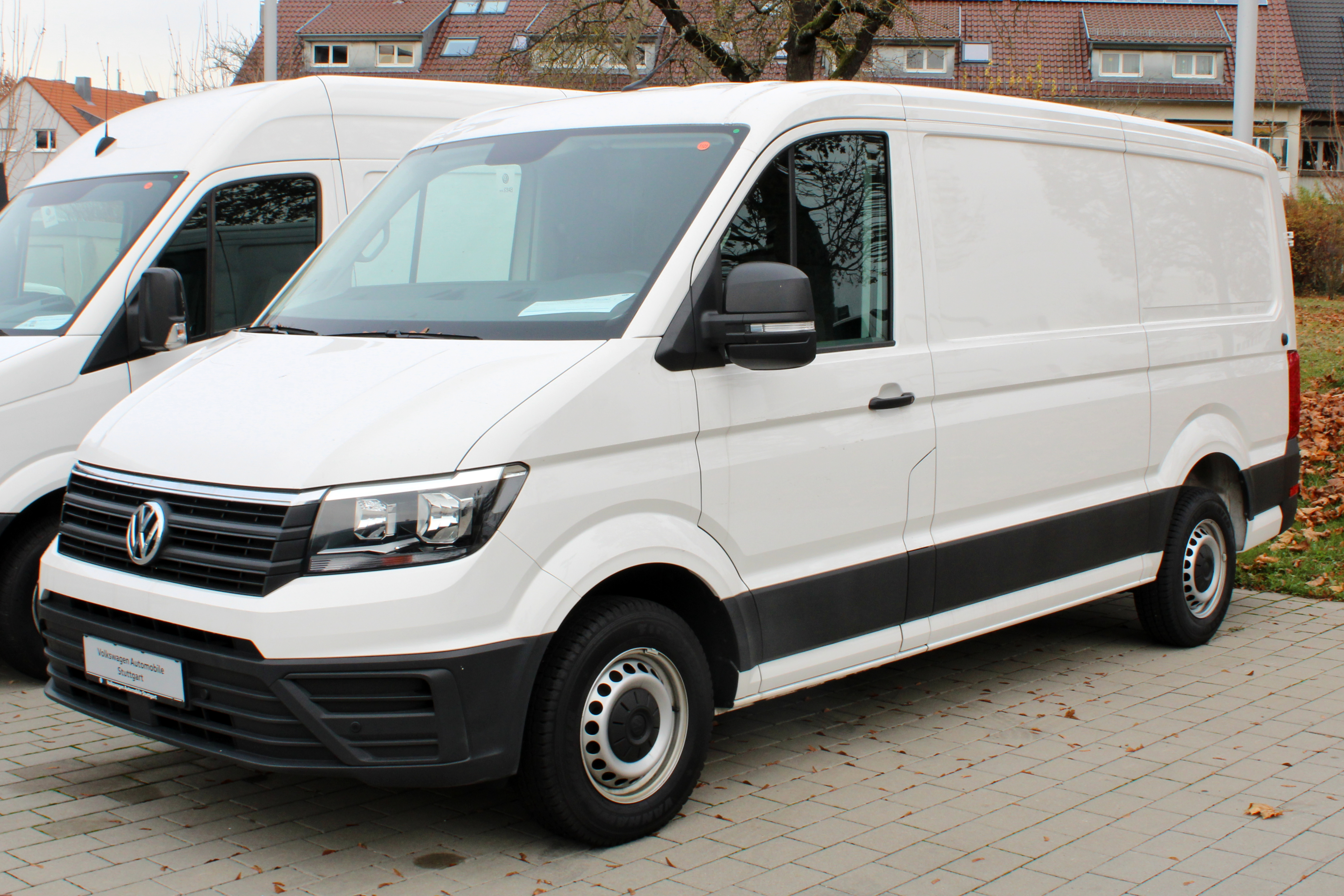 Volkswagen Crafter in Stuttgart-Vaihingen